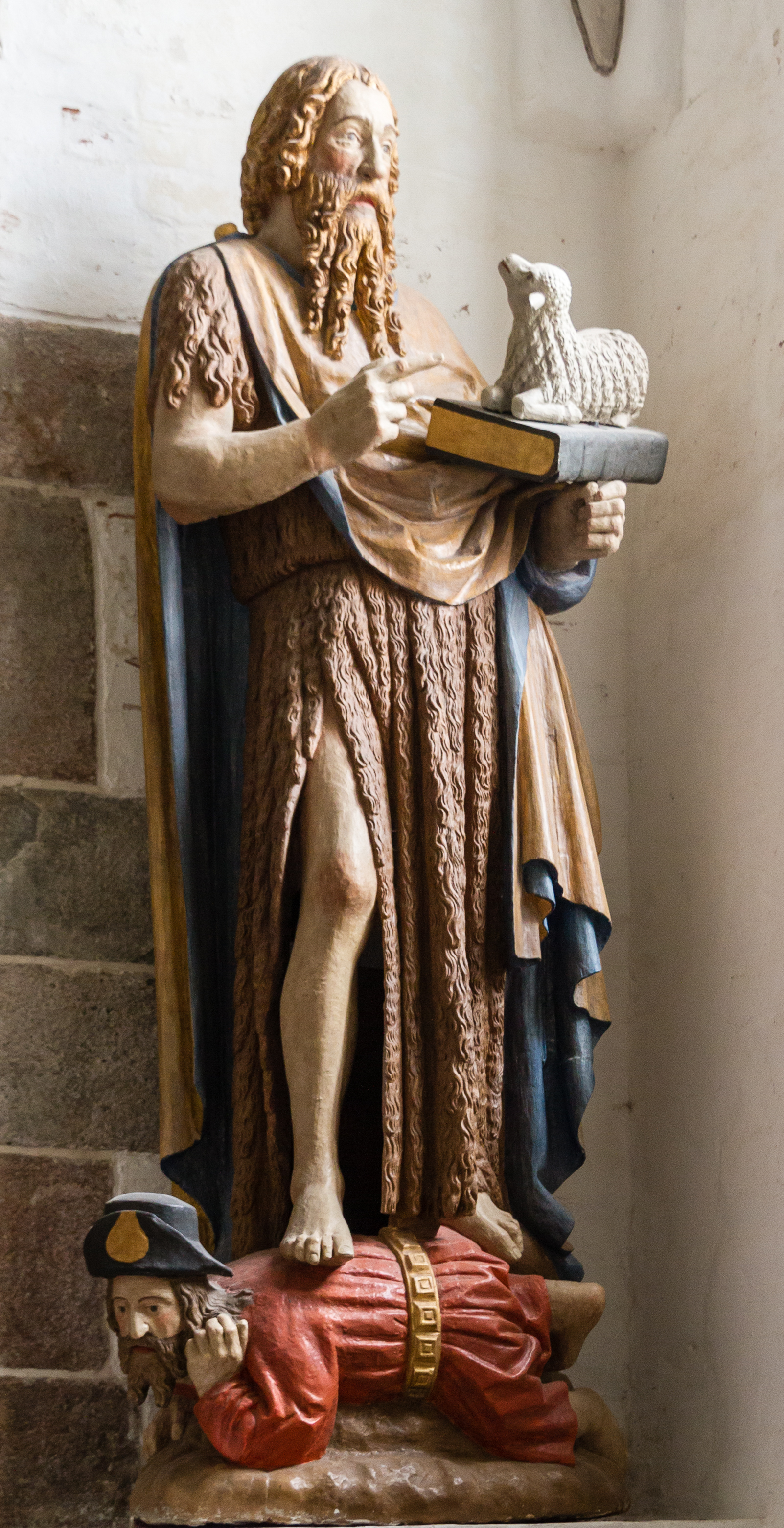 This is a photograph of an architectural monument. Designation: Church St. Johannis mit equipment Construction time: 12th century Description: The Protestant church was built in the 12th century. In the 13th century the church was extended. Inside there is a carved altar from the time around 1480. The granite baptismal font dates from the period around 1200. The pulpit was built in 1618. Category: Structural component, Material entity: Church St. Johannis Place: Municipality Nieblum, Collective municipality Föhr-Amrum, District Nordfriesland, Schleswig-Holstein, Germany Location: Karkstieg